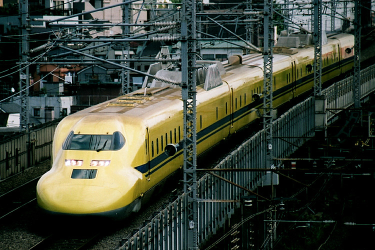 Shinkansen 923 series "Doctor Yellow" inspection train on the Tokaido Shinkansen between Tokyo and Shin-Yokohama